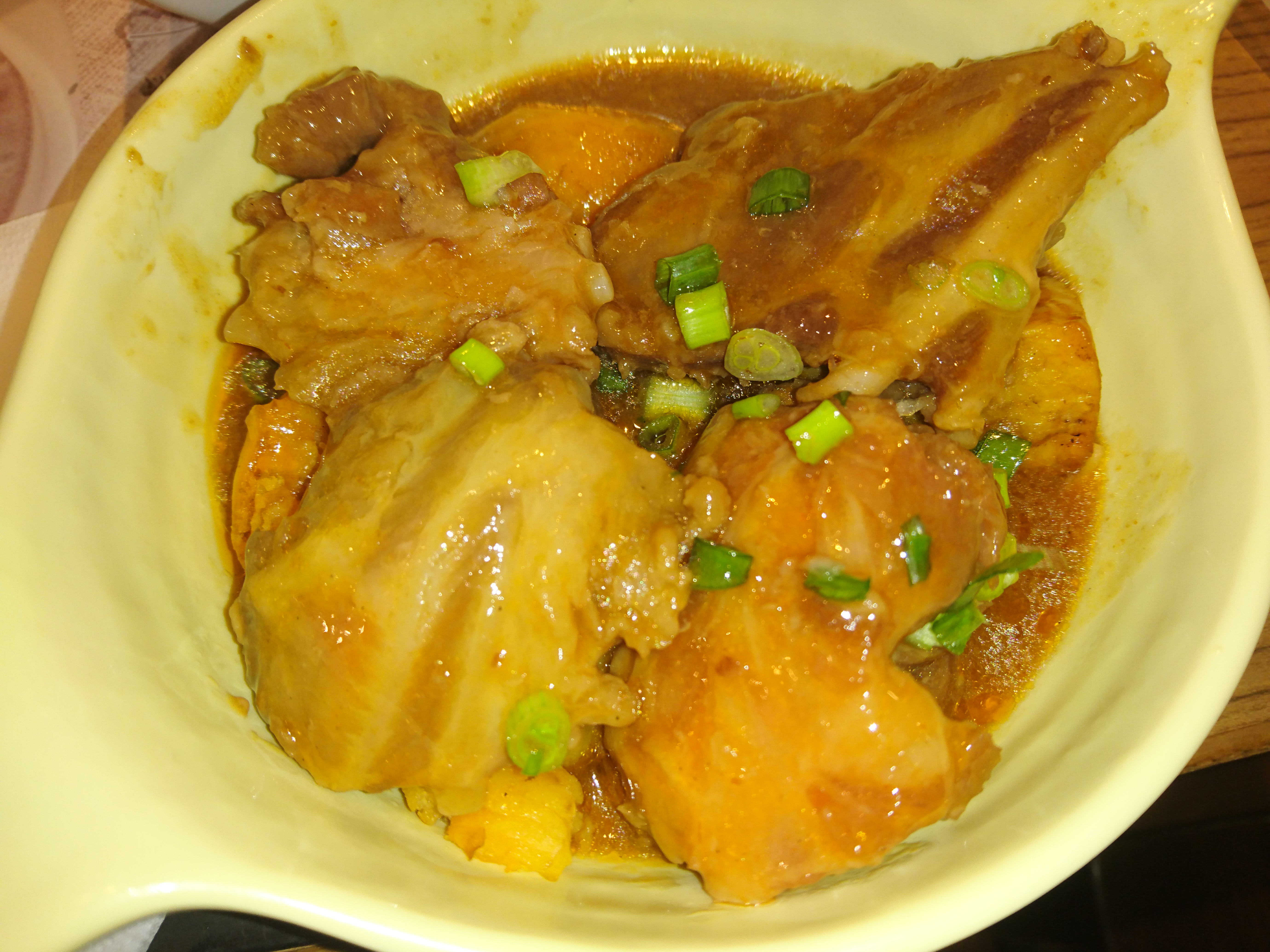 Pork Cartilage in Sweet Vinegar Sauce